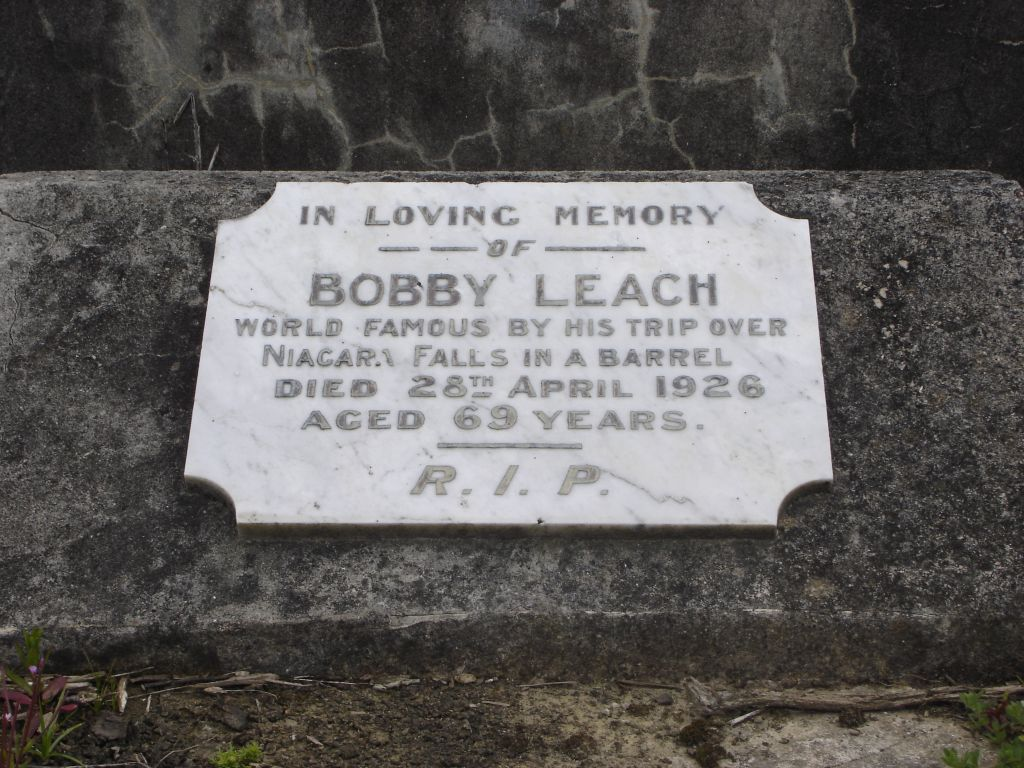 Headstone of Bobby Leach at Hillsborough Cemetery, Auckland, New Zealand